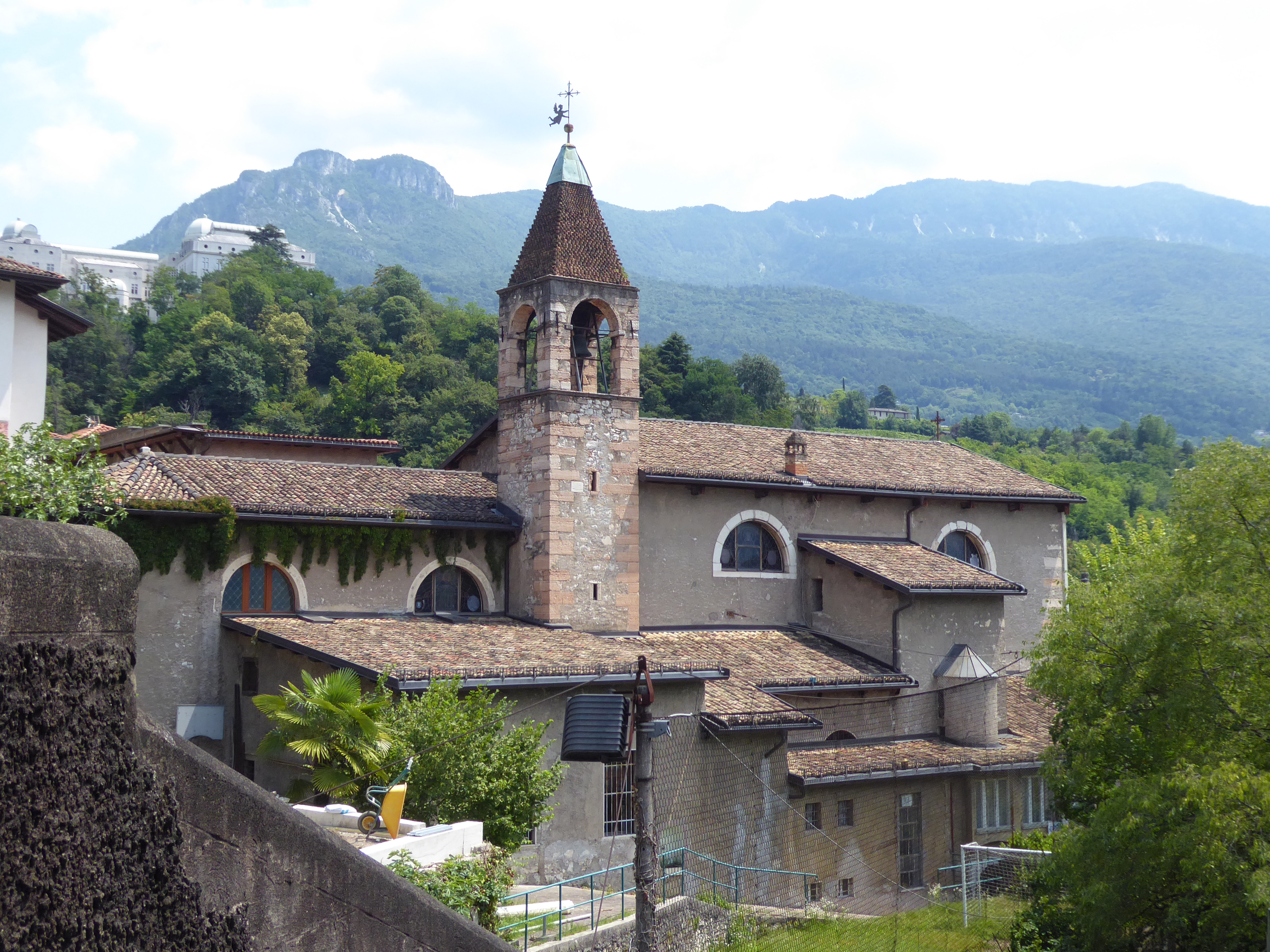 Trento (Italy), Saint Bernardino church